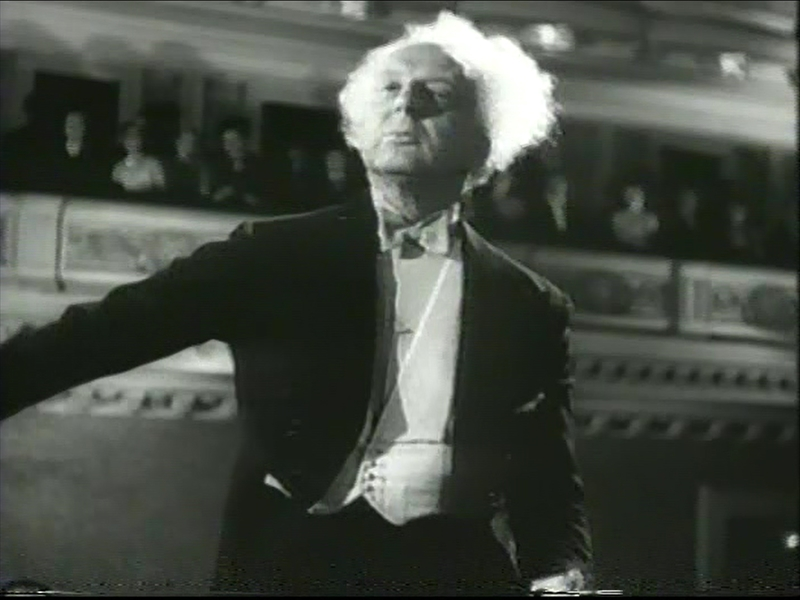 Leopold Stokowski from "Carnegie Hall".